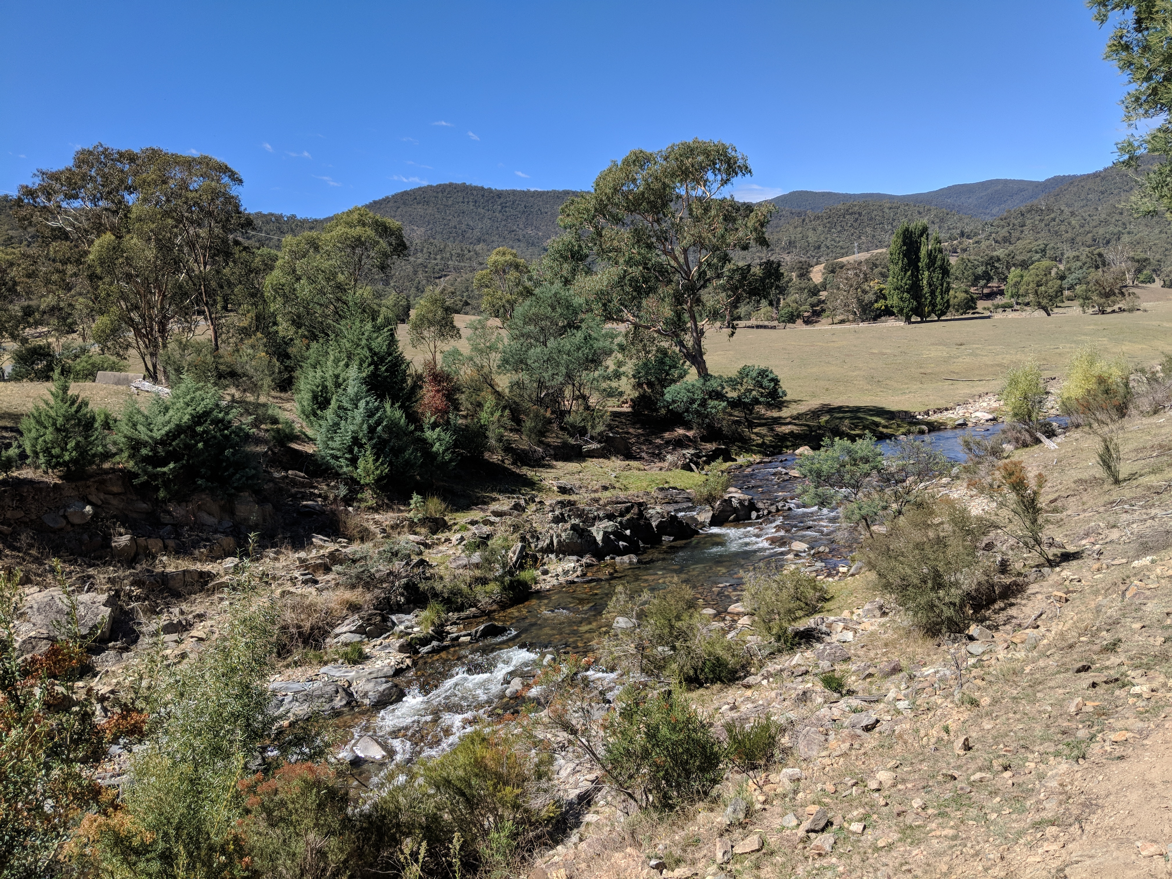 Goodradigbee River in Brindabella, looking upstream, the Brindabellas in background